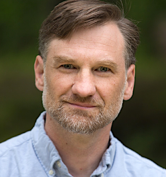 Gregory W. Brown – Photo used with permission of subject.